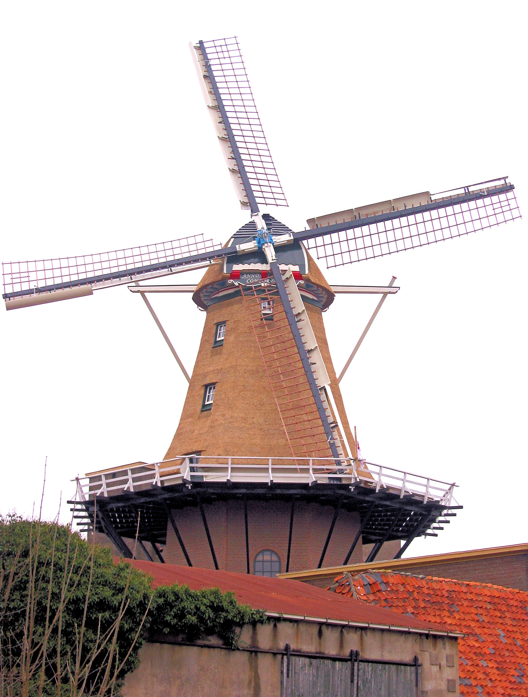 Rouwstand Concordia molen te Ede